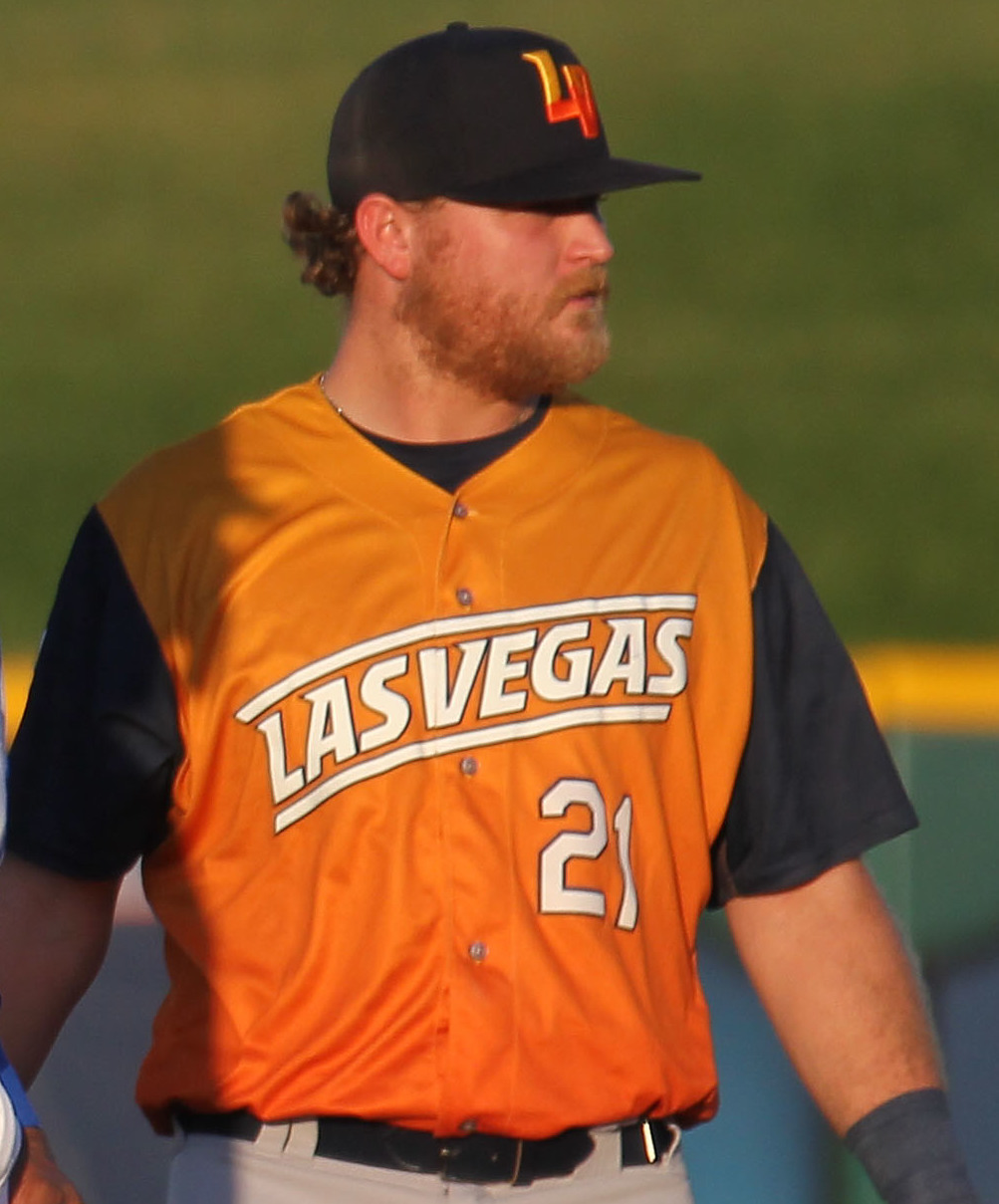 Kelvin Gutiérrez with the Omaha Storm Chasers and Sheldon Neuse with the Las Vegas Aviators during a 2019 game at Werner Park in Nebraska